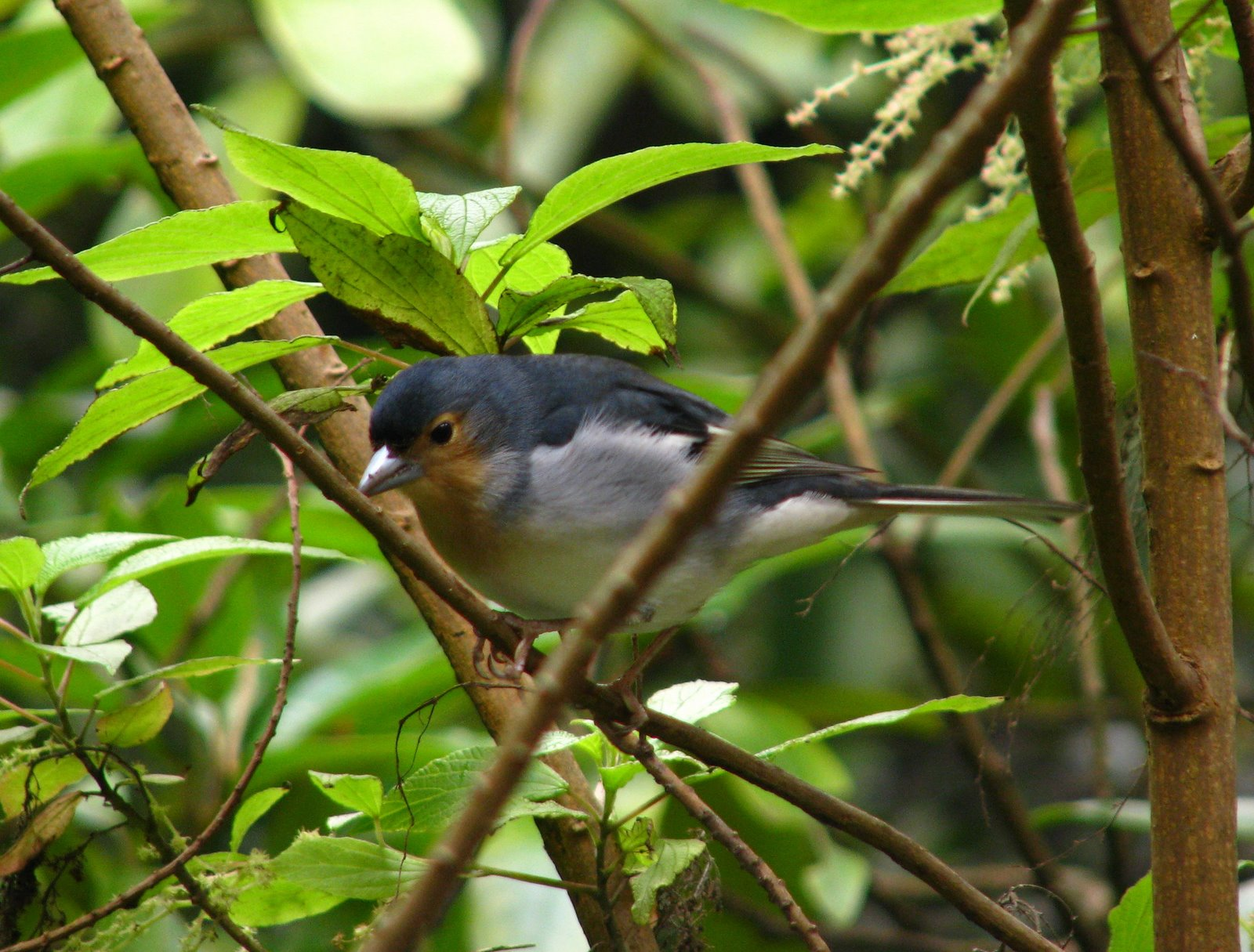 A Chaffinch on the island of La Palma, Canary Islands, Spain.